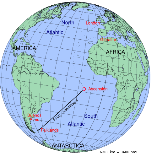 description map of Operation Black Buck during the Falklands War